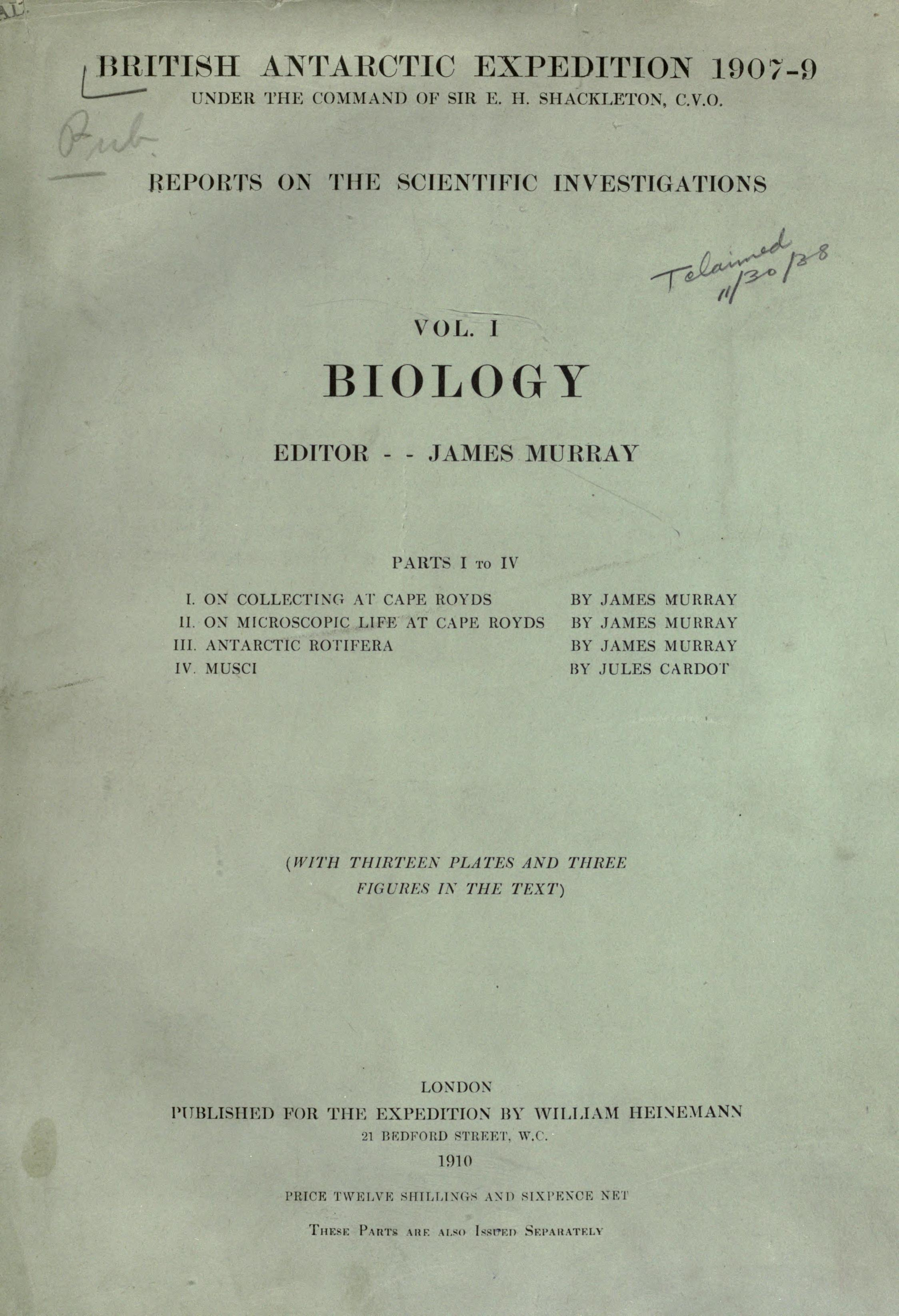 British Antarctic Expedition, 1907-9, under the command of Sir E.H. Shackleton, c.v.o. Reports on the scientific investigations ...